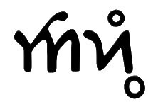 "Ahom" written in Ahom script